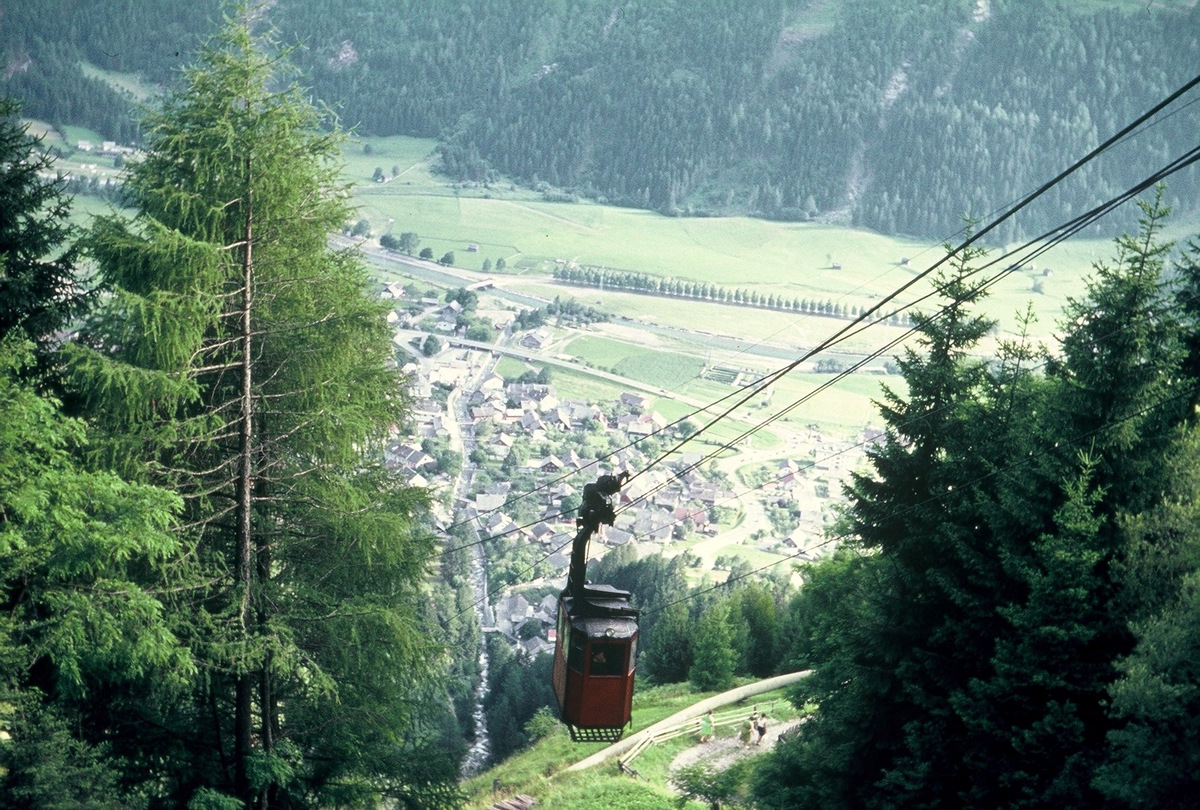 Obervellach 1970